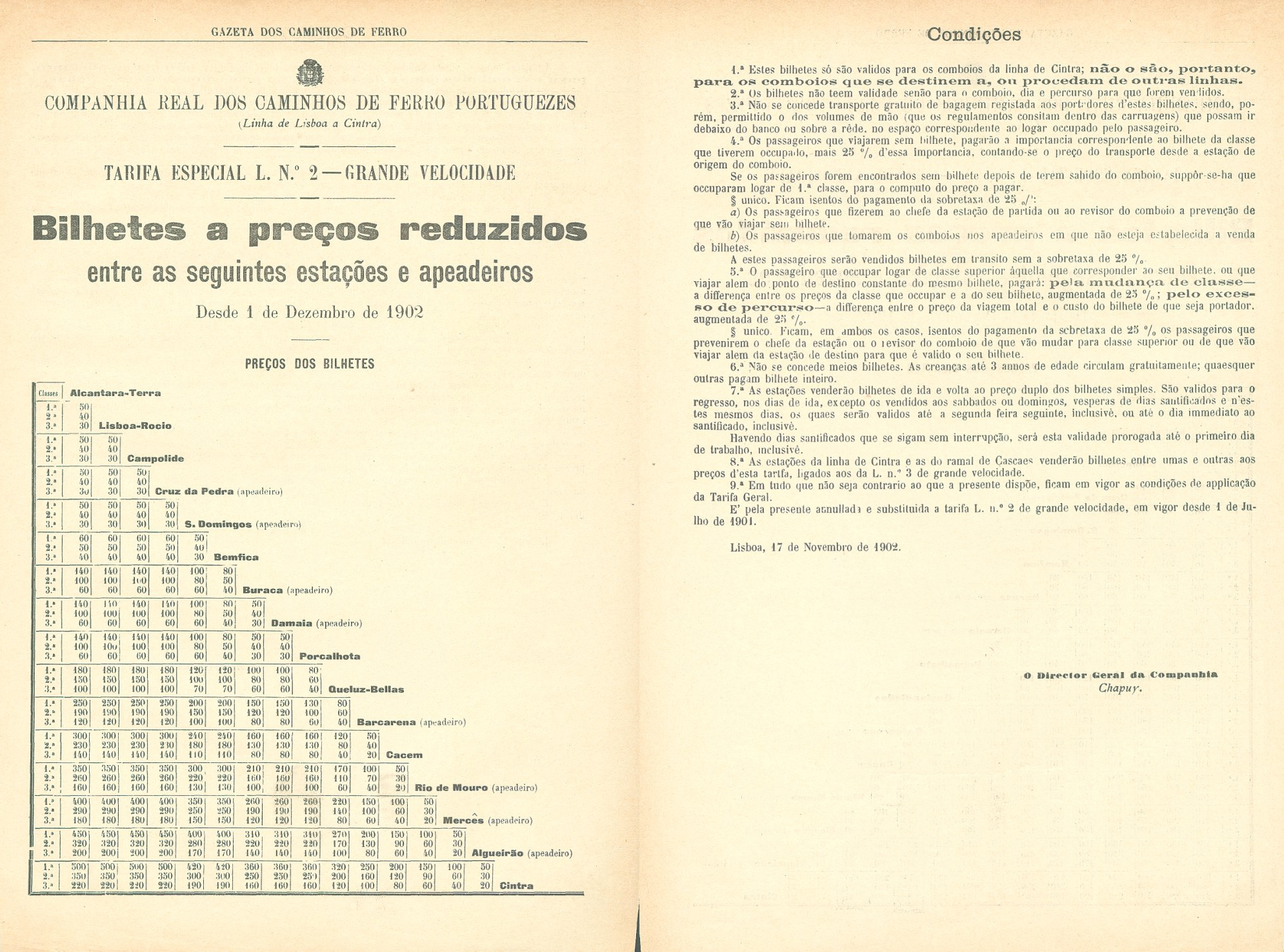 Advertisement of the Companhia Real dos Caminhos de Ferro Portugueses (Royal Company of the Portuguese Railways), showing the special tariff n.º 2, for tickets at reduced prices from the trains between the stations of Rossio and Alcântara - Terra, in Lisbon, to Sintra. This image was published on the Gazeta dos Caminhos de Ferro magazine no. 359, of the 1st December 1902, and scanned by the Hemeroteca Municipal de Lisboa.